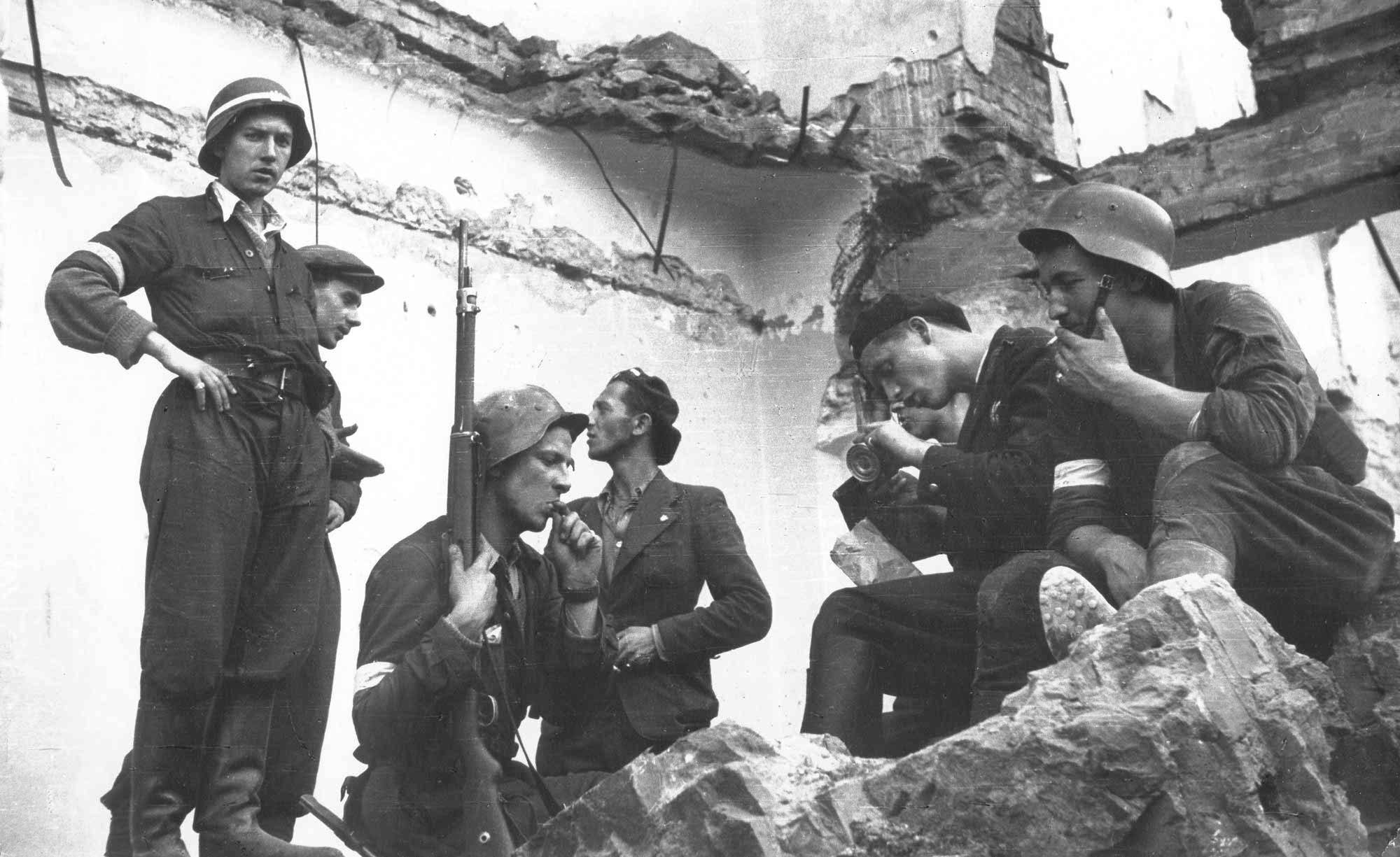 WarsawUprising: Moment of rest in the Main Post Office at Napoleon square.